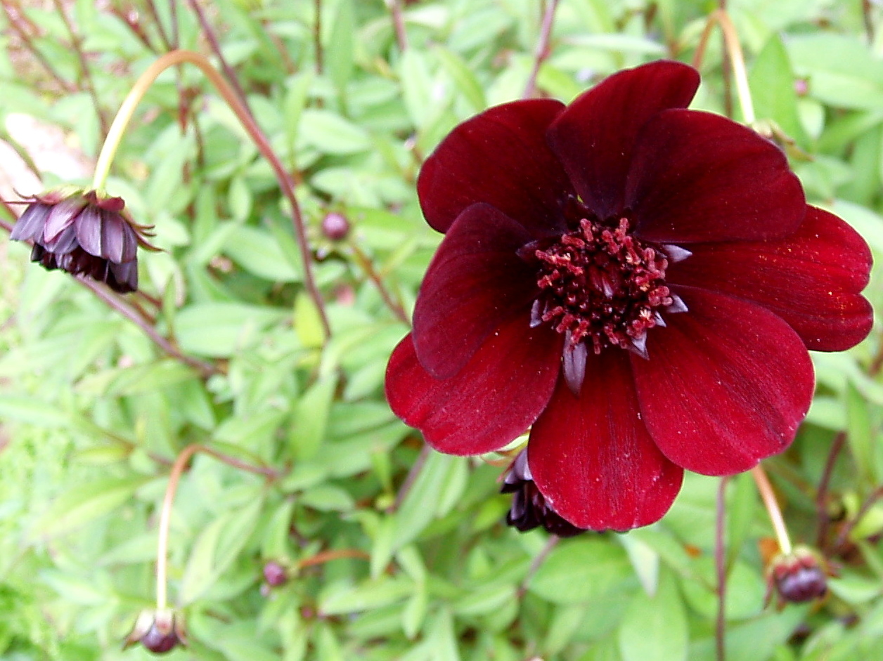 Chocolate Cosmos (Cosmos atrosanguineus)